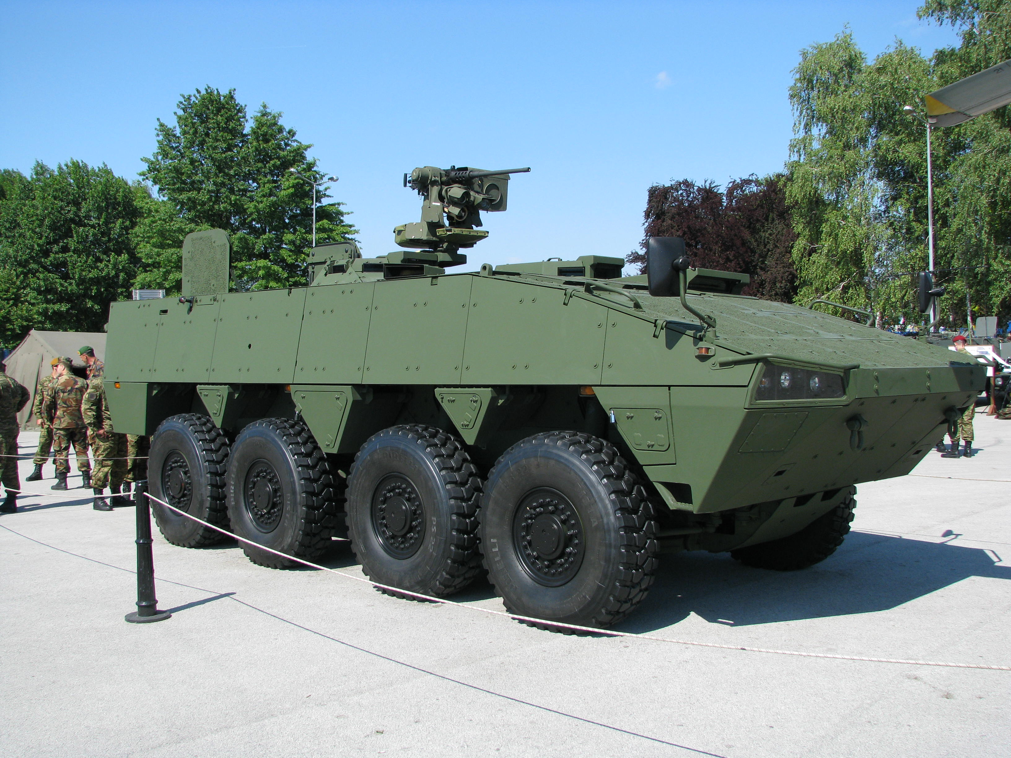 Croatian Patria AMV, Karlovac, 2009